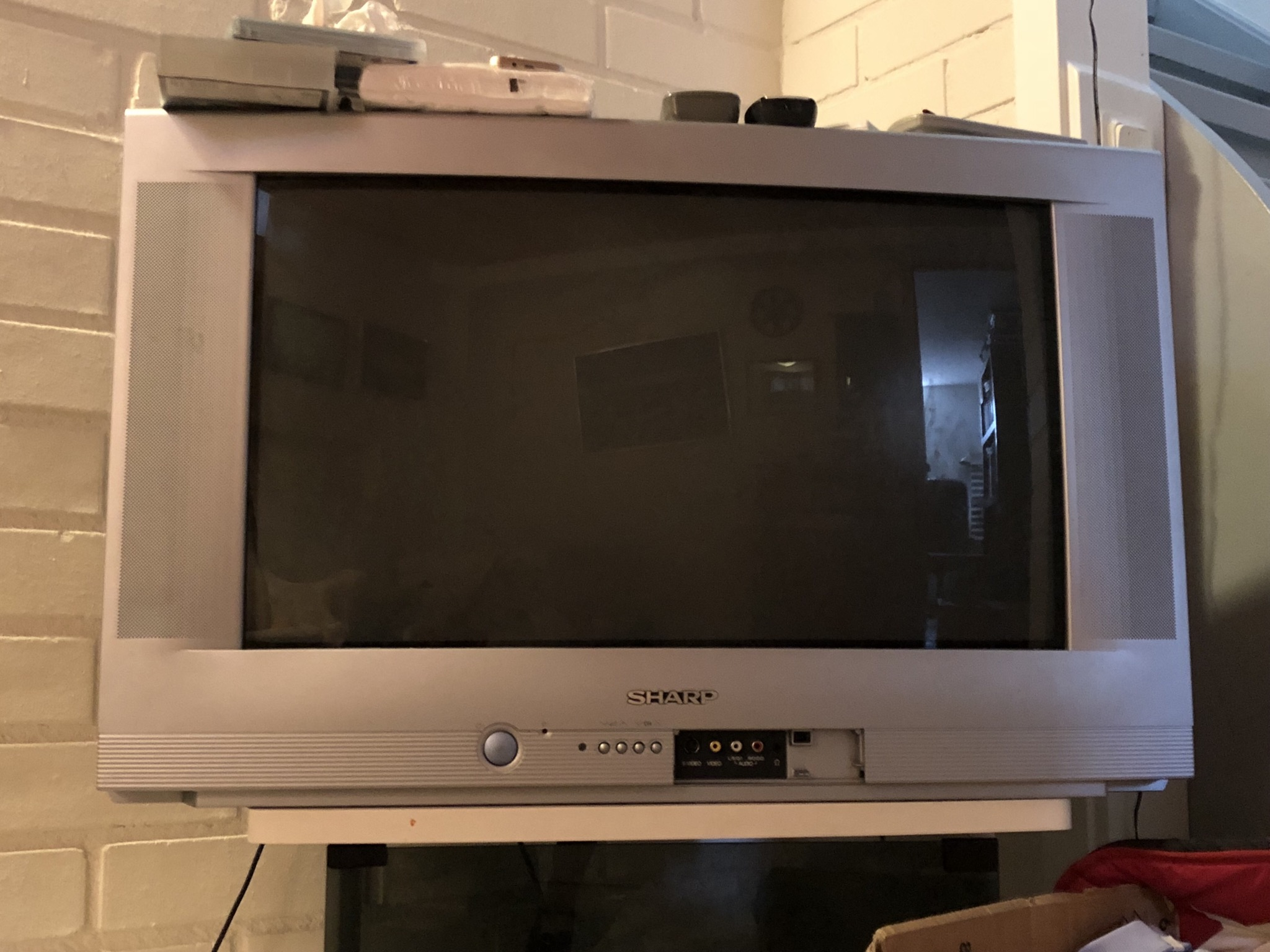 Sharp televison